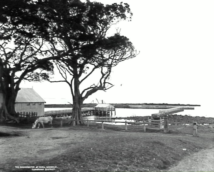 The Royal Australian Historical Society is heading to Wollongong to stage its annual conference on Saturday 22nd and Sunday 23rd October at Centro CBD – 28 Stewart St. Wollongong NSW. The digital revolution is impacting how we research and produce history. There is also an increasing appetite for local and community history that connects people to their identity and place. History plays a critical role in advocacy campaigns to ensure that these places remain part of our cultural landscape in this era of widespread urban development. How historical societies engage with these developments is critical to ensure their continued relevancy in 21st century Australia. The RAHS invites you to join us to explore these topics, learn skills that will support your history projects and enjoy opportunities to network and share histories with RAHS members and friends. Attend an historical tour and our conference dinner on the Saturday evening. Conference details are on our website, which includes the full program and booking form: Go straight to the program and booking form here